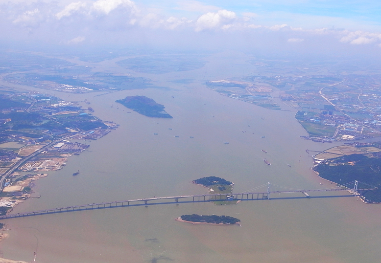 Humen Bridge in Dongguan